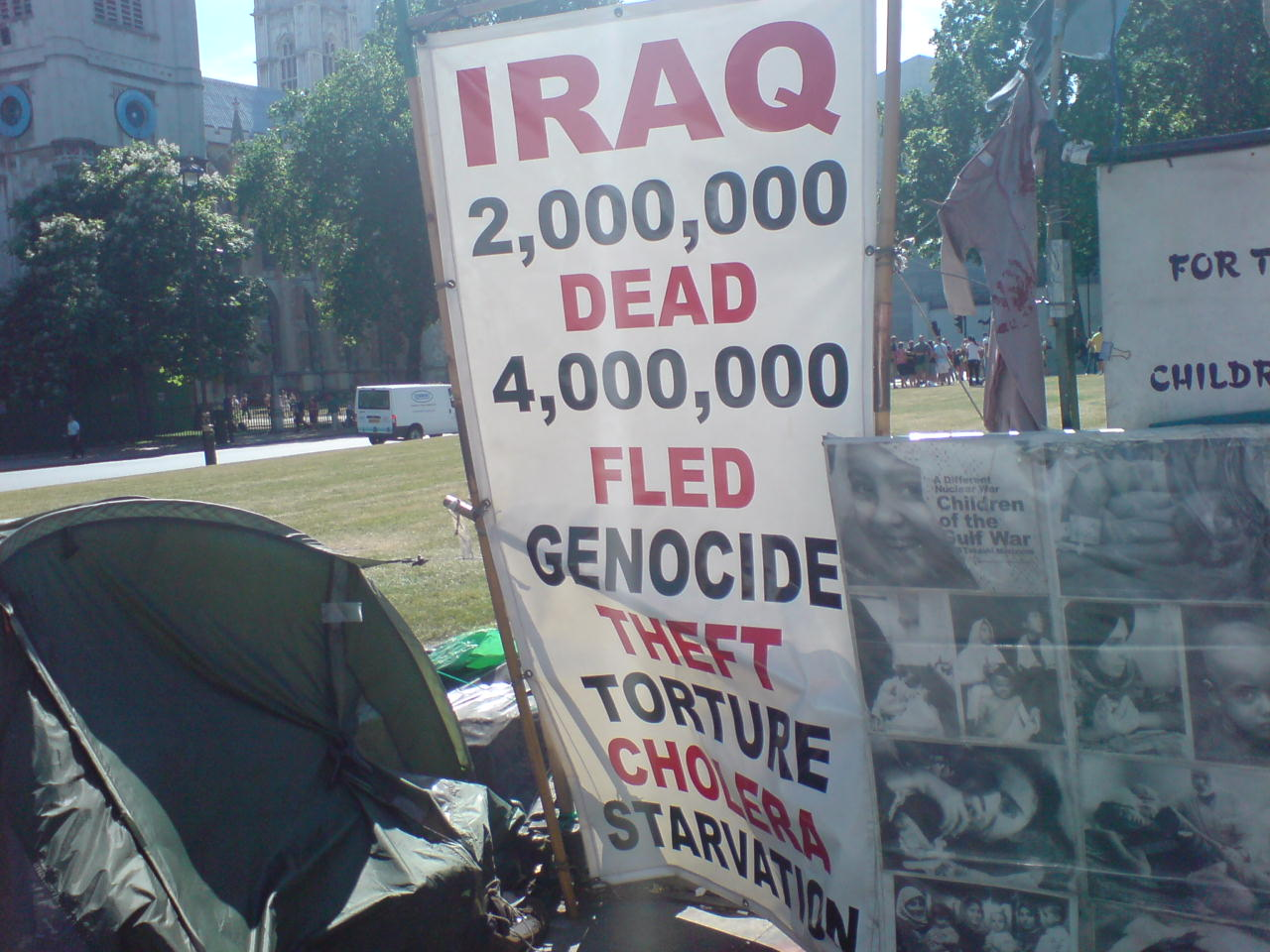 Iraq War Protesters in Parliament Square